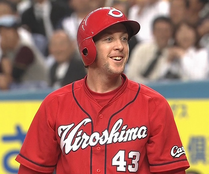 Jeff Fiorentino